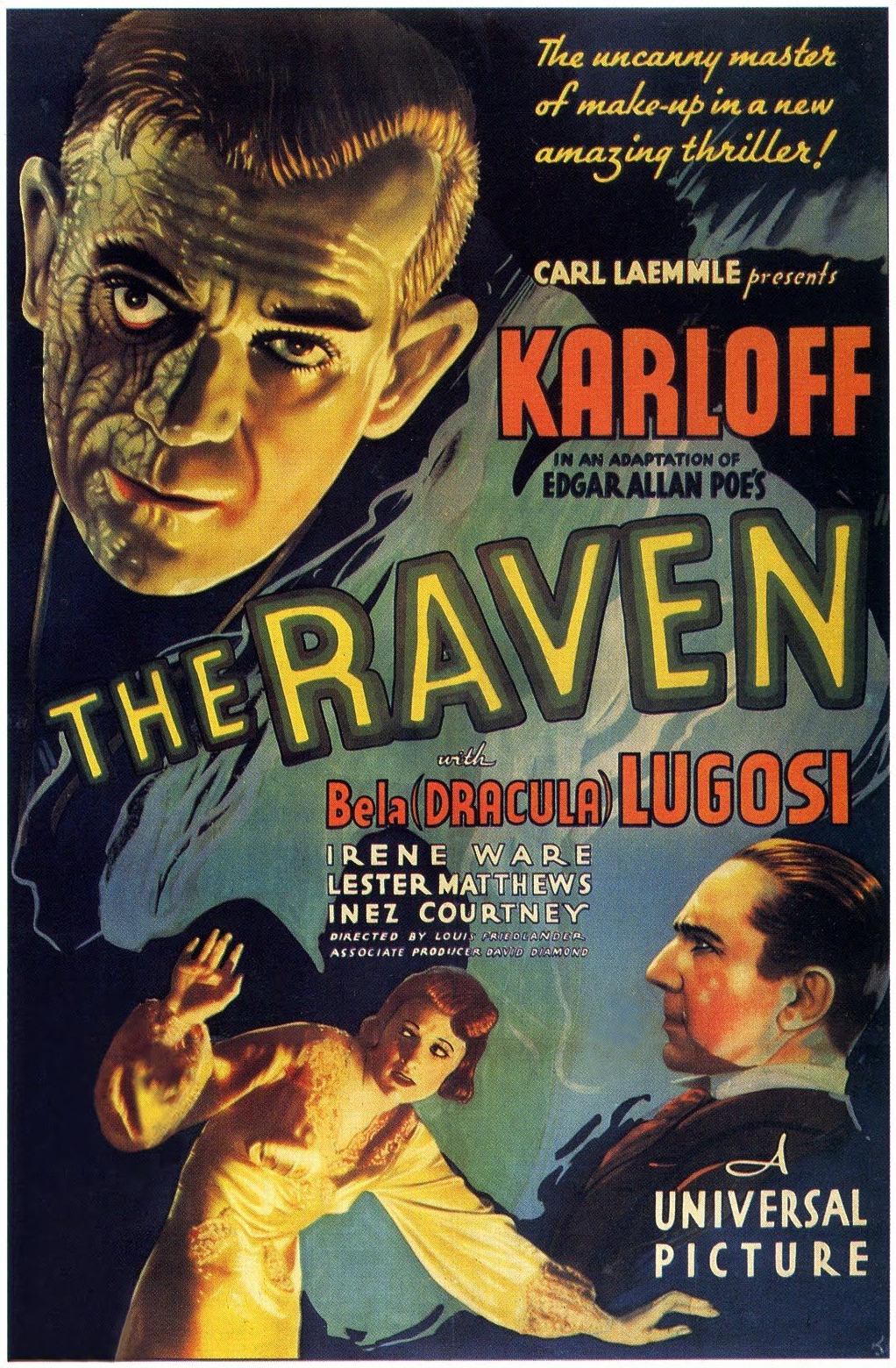 "Style C" theatrical release poster for the 1935 film The Raven.